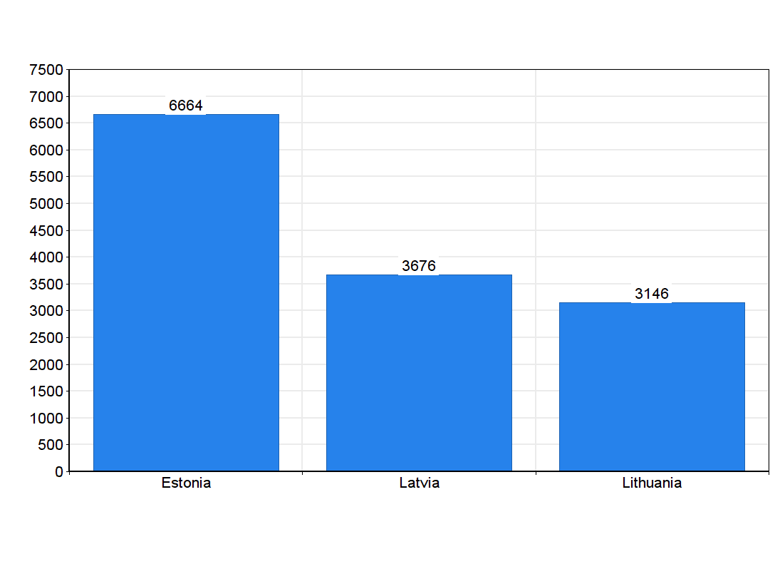 The confirmed state budget revenues per capita for 2016 in Estonia, Latvia and Lithuania in EUR Sources